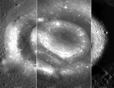 LROC NAC mosaic (image no's. M135379494LE, M111783348RE, M111783348LE, M133018216LE) of Marth. Note, as both the eastern and western NAC images in the triptych above were taken at different dates during the spacecraft's orbit, the lighting conditions aren't the same, however, alignment and feature proportions have been maintained.